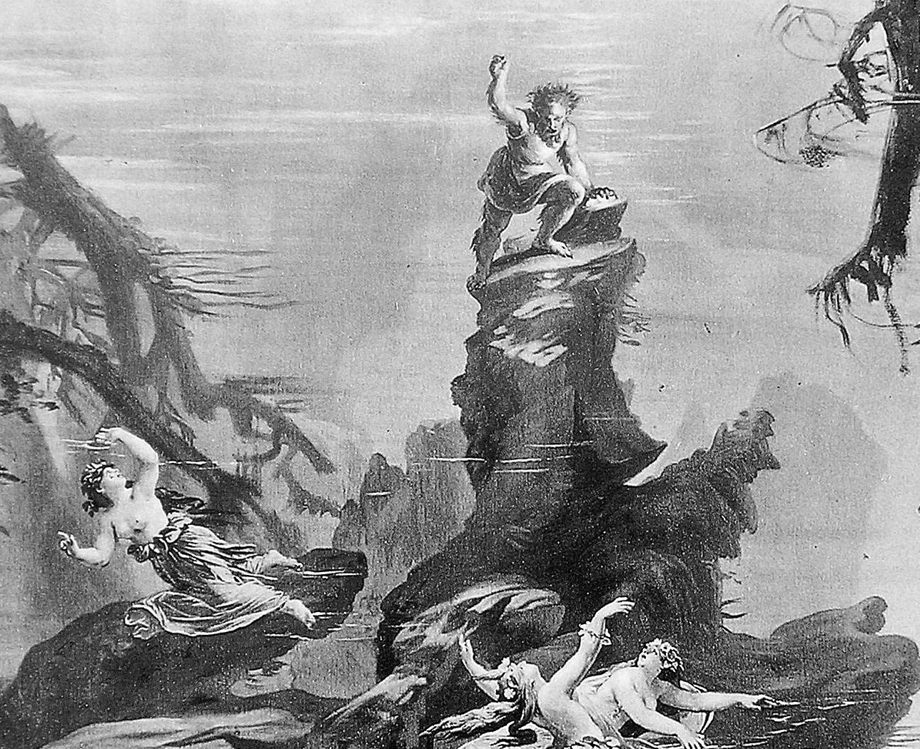 This is a monochrome photograph taken of Hoffman's 14 set designs (number 1) for Wagner's Der Ring des Nibelungen opera in 1876. Hoffman authorized Angerer to publish and sell copies of the photographs.[1] The uploader, JosefLehmkuhl, has failed to specify from where he scanned this image.